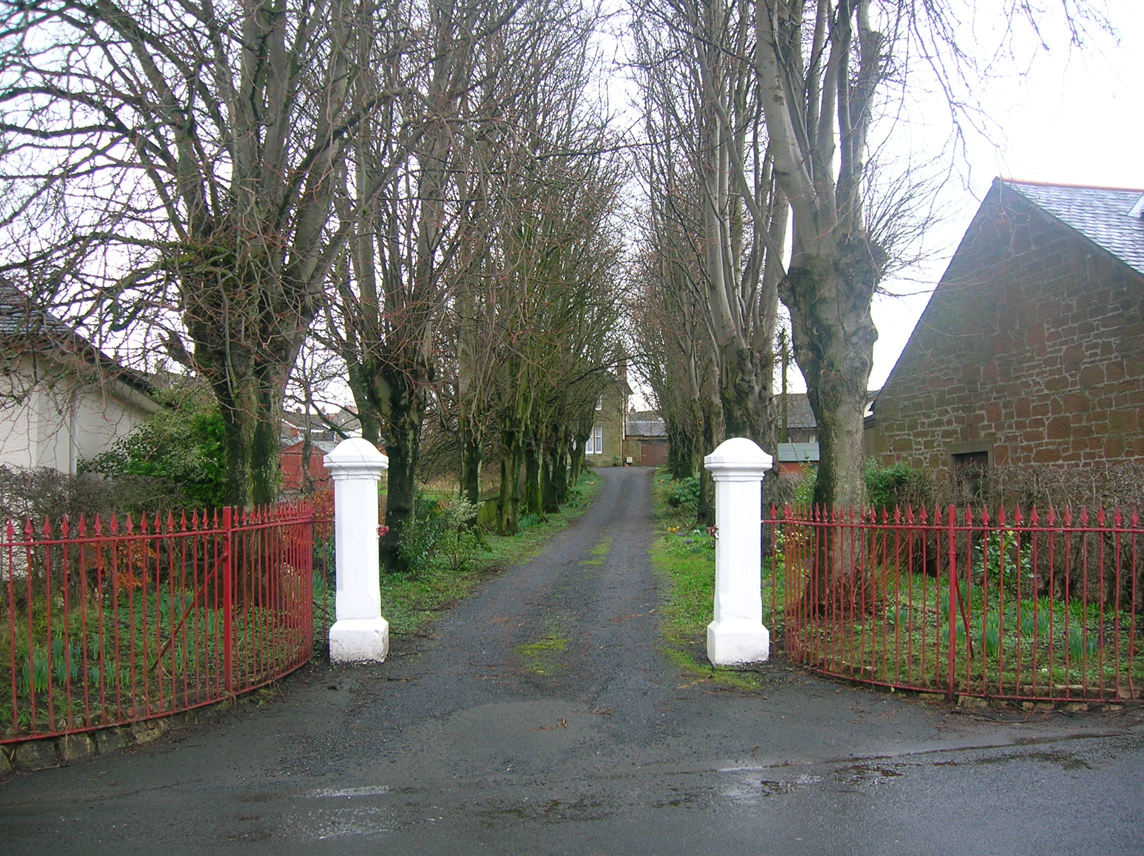 Pollarded trees lining a driveway in Kilmaurs, East Ayrshire, Scotland.